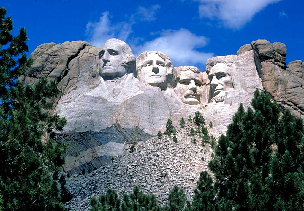 Mount Rushmore - from left to right : George Washington, Thomas Jefferson, Theodore Roosevelt and Abraham Lincoln